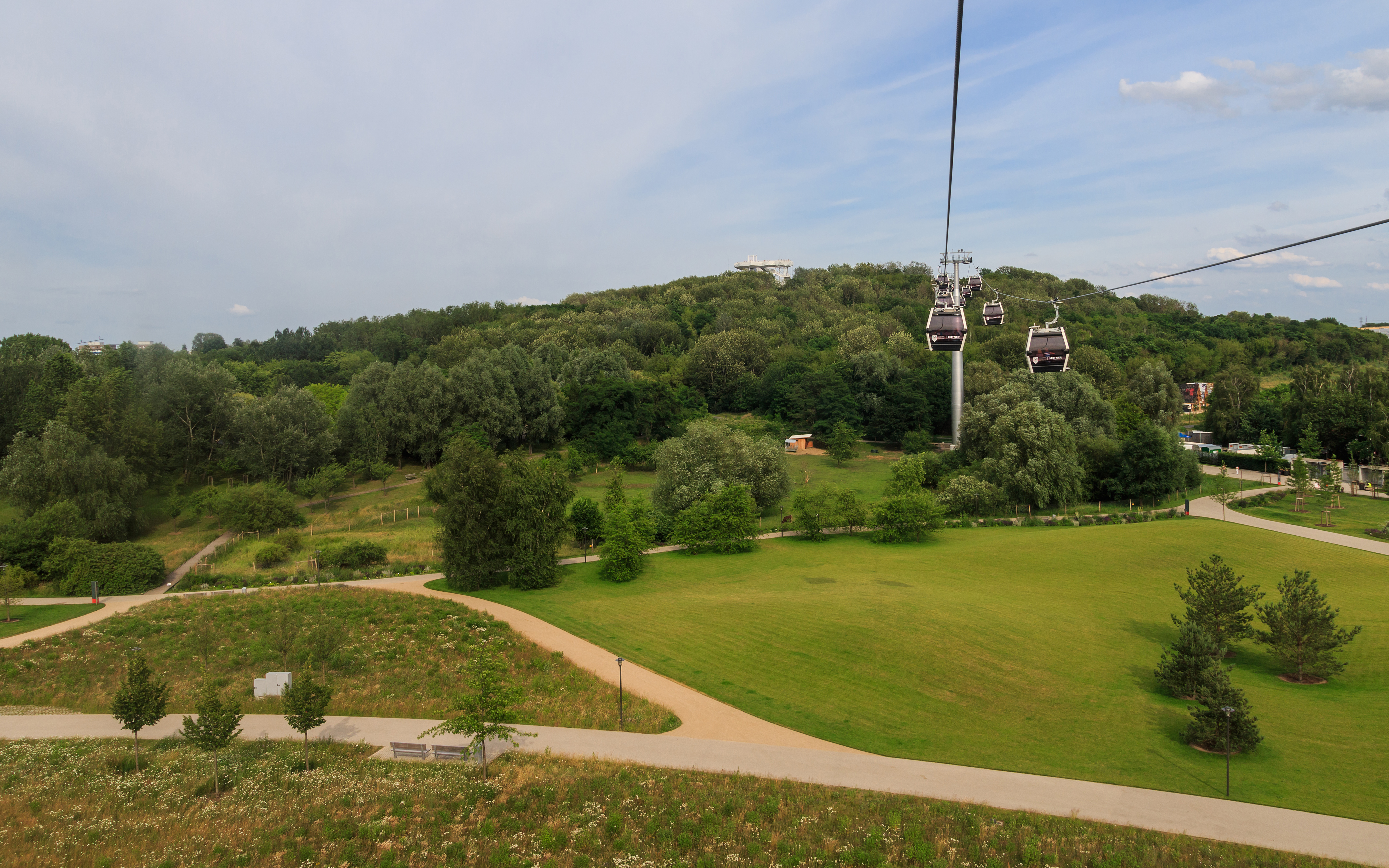 Kienberg Marzahn and surroundings (IGA 2017 area) in Berlin (Germany)